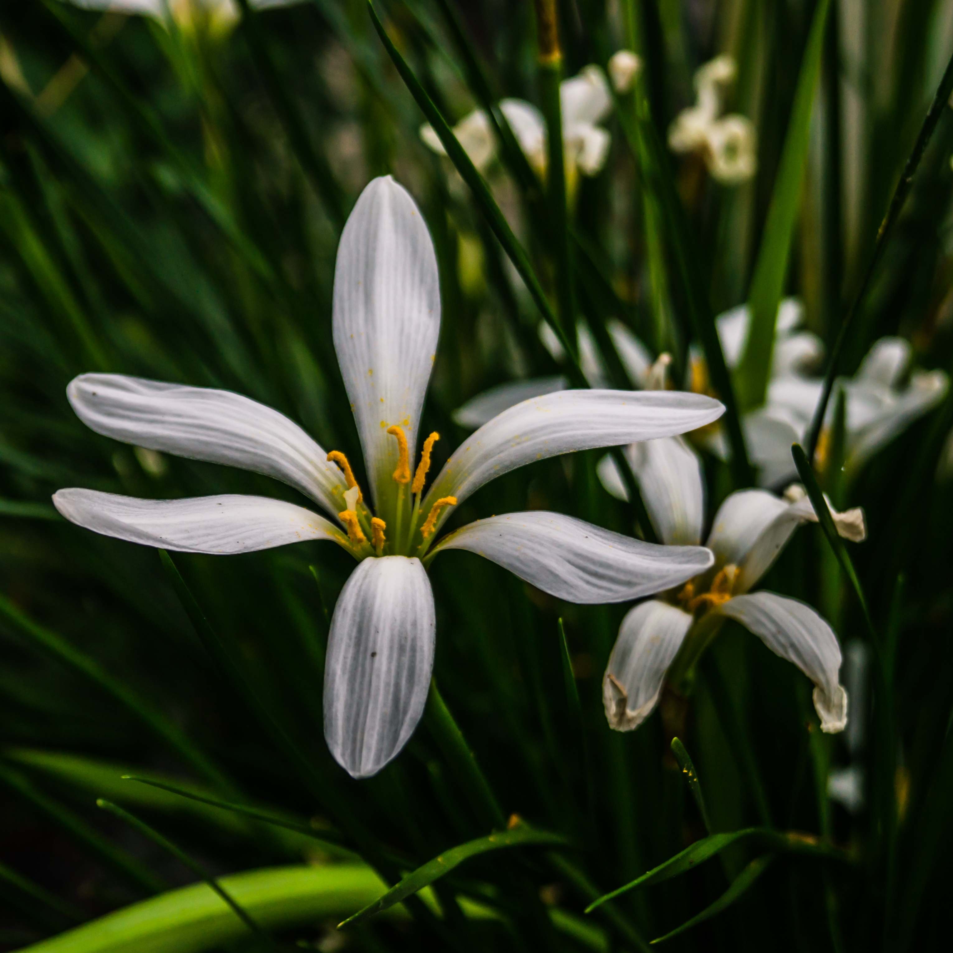 Zephyranthes drummondii, formerly Cooperia pedinculata, Oslo botanical garden